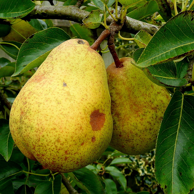 Ripe Williams pears September scent and flavour to savour.